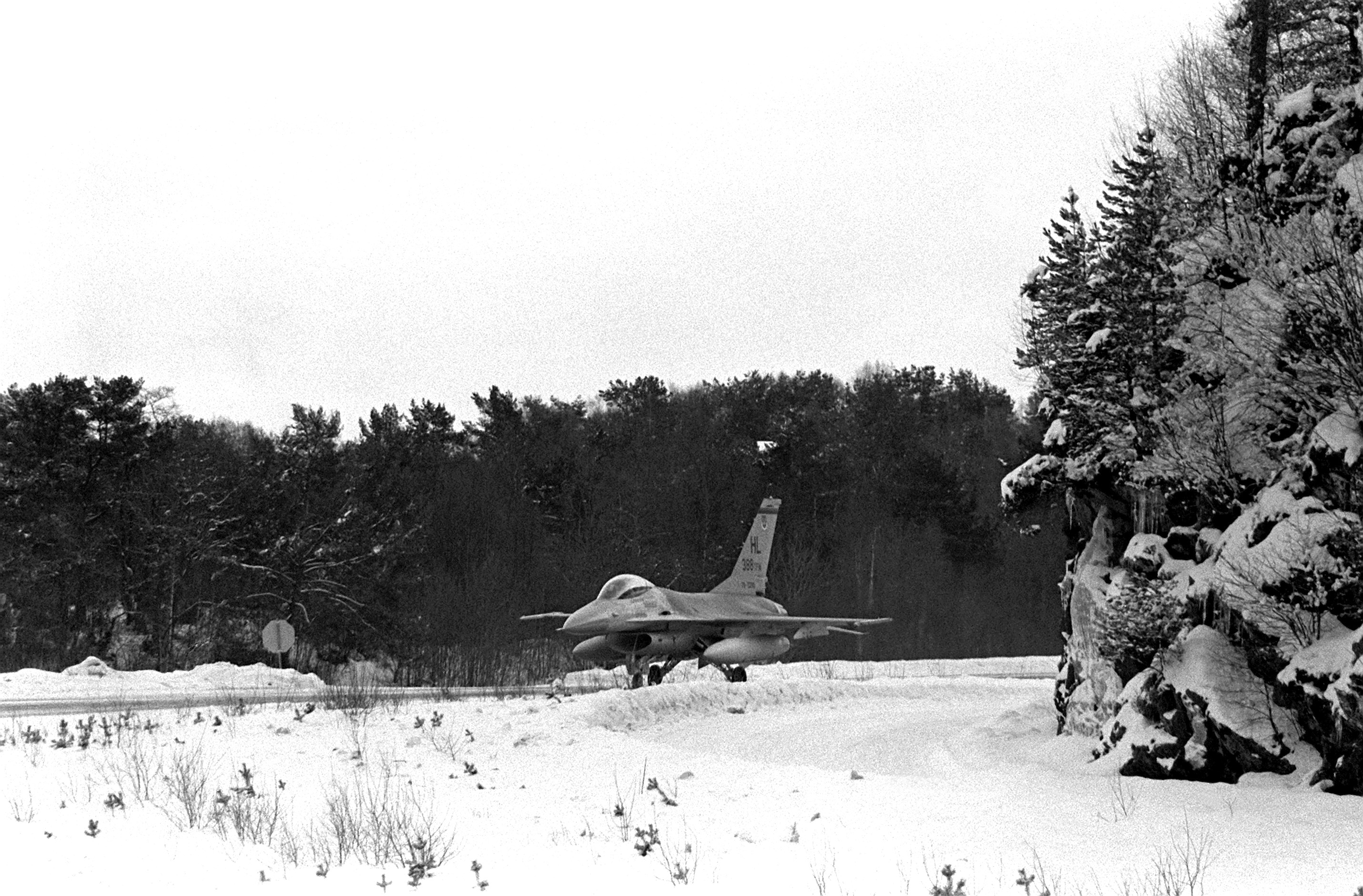 A left front view of an F-16A Fighting Falcon aircraft from the 4th Tactical Fighter Squadron assigned to the 388th Tactical Fighter Wing preparing for take-off. This assignment to Norway marks the first overseas deployment of the F-16A aircraft.